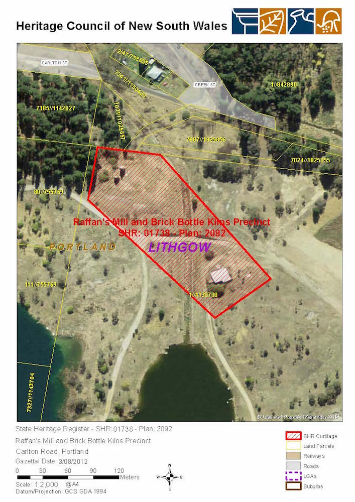 Raffan's Mill and Brick Bottle Kilns: SHR Plan